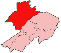 Map of Gbarpolu County, Liberia showing Kongba District; created with the GIMP. Made by User:Acntx.